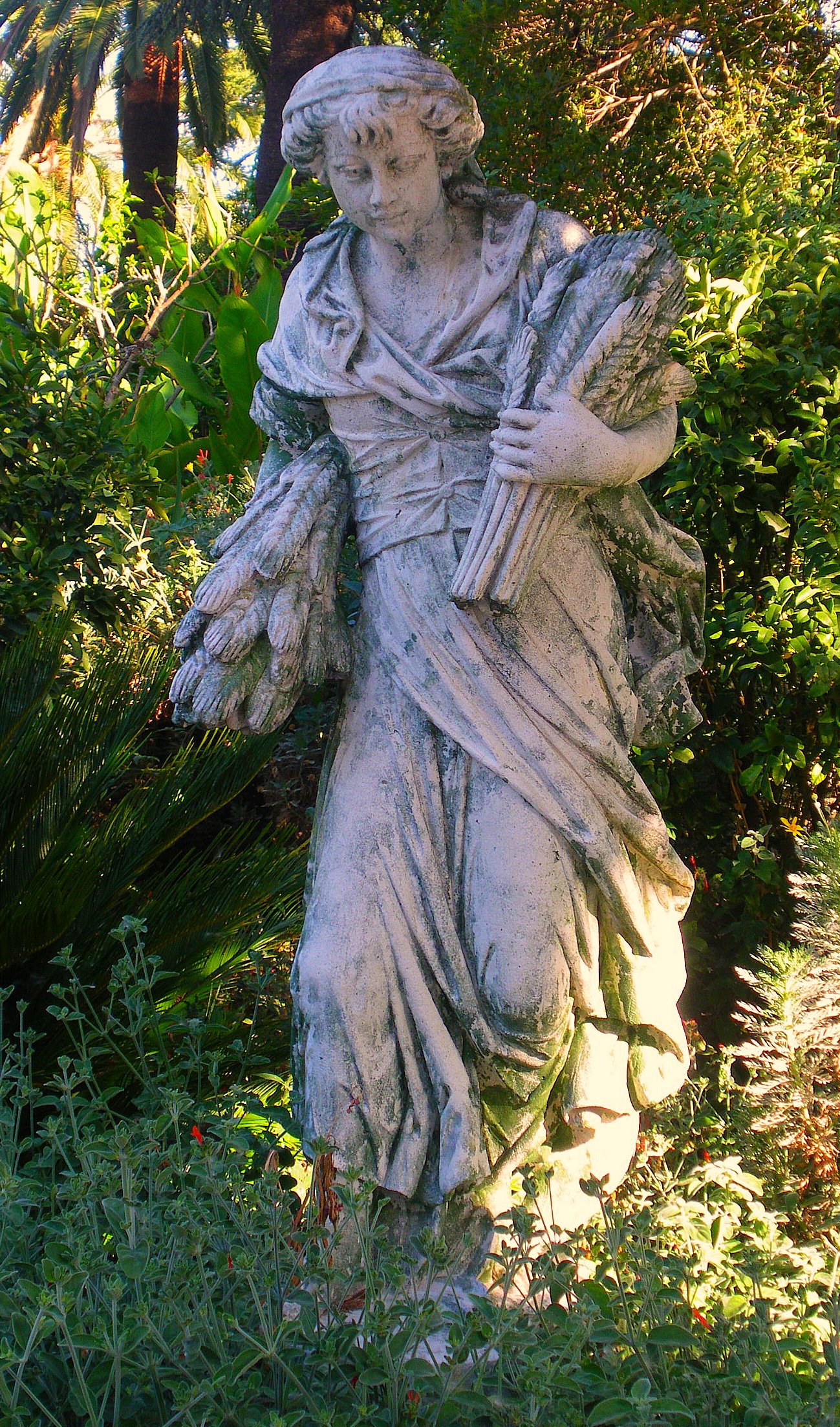 Are you Libon'd yet? Most wonderful garden aesthetic in the capital of Portugal!